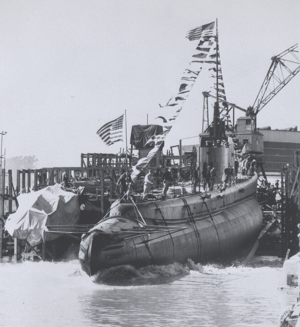 February 14th, 1942. USS Wahoo (SS-238) launching in Mare Island shipyard.